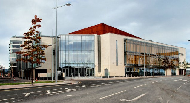 The Public Records Office for Northern Ireland, Belfast